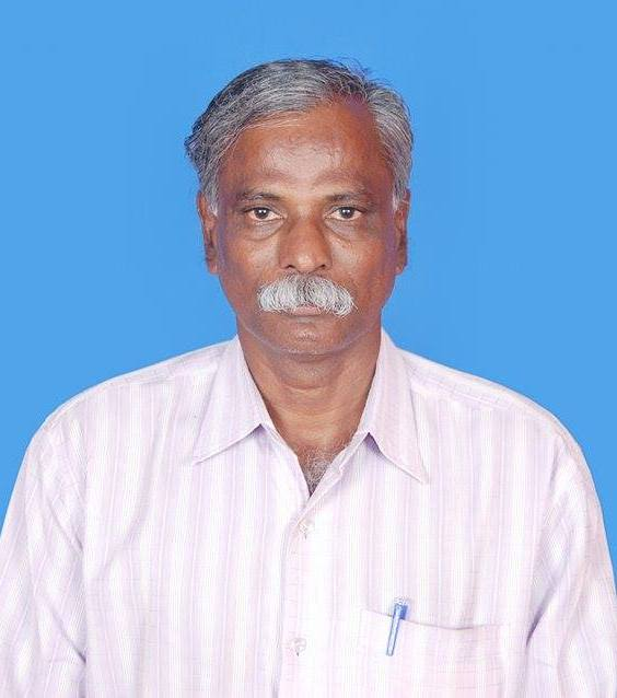 Ananthapuram Krishnamurthy அனந்தபுரம் கிருட்டினமூர்த்தி